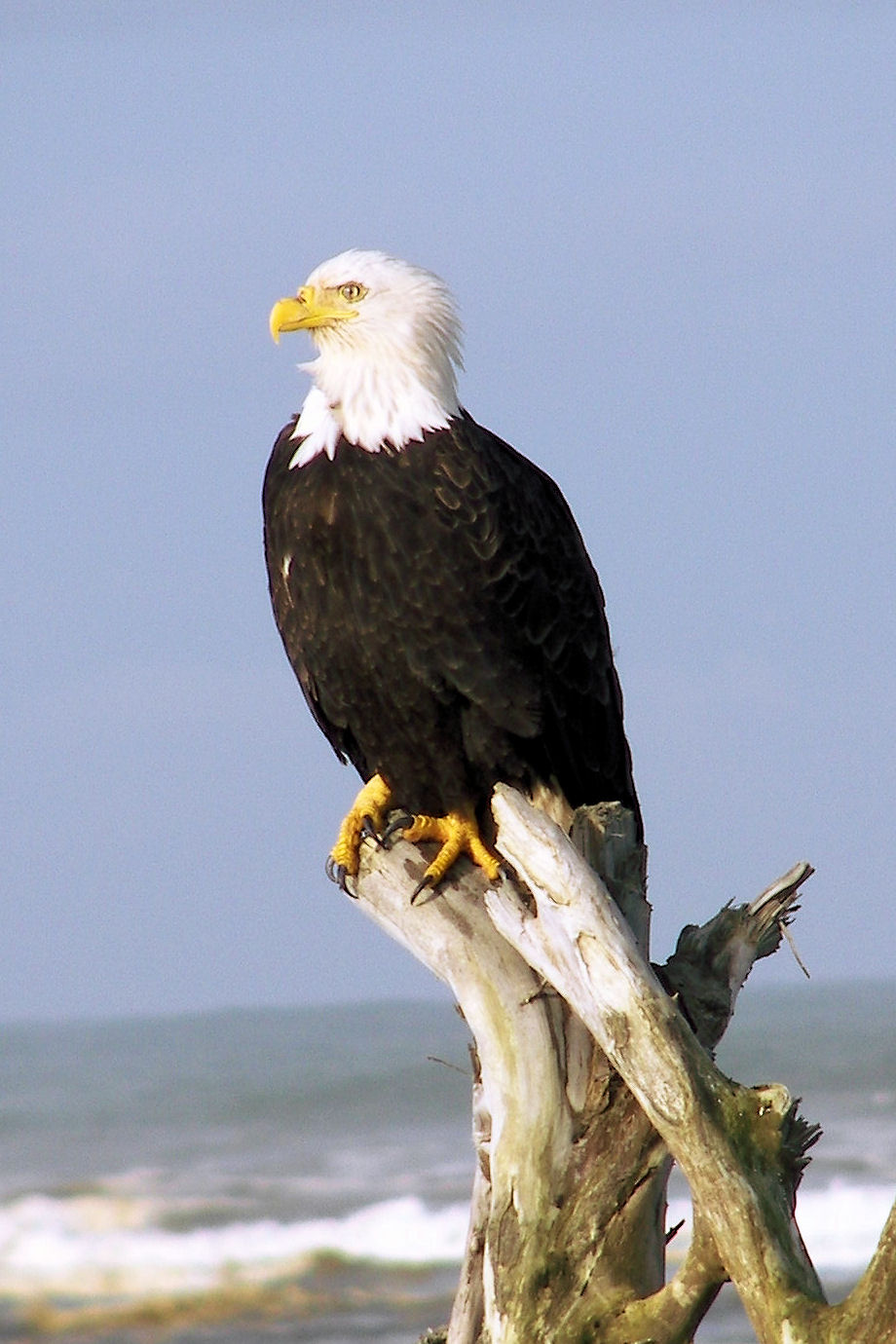 Haliaeetus leucocephalus (bald eagle), Ocean Shores, Washington.